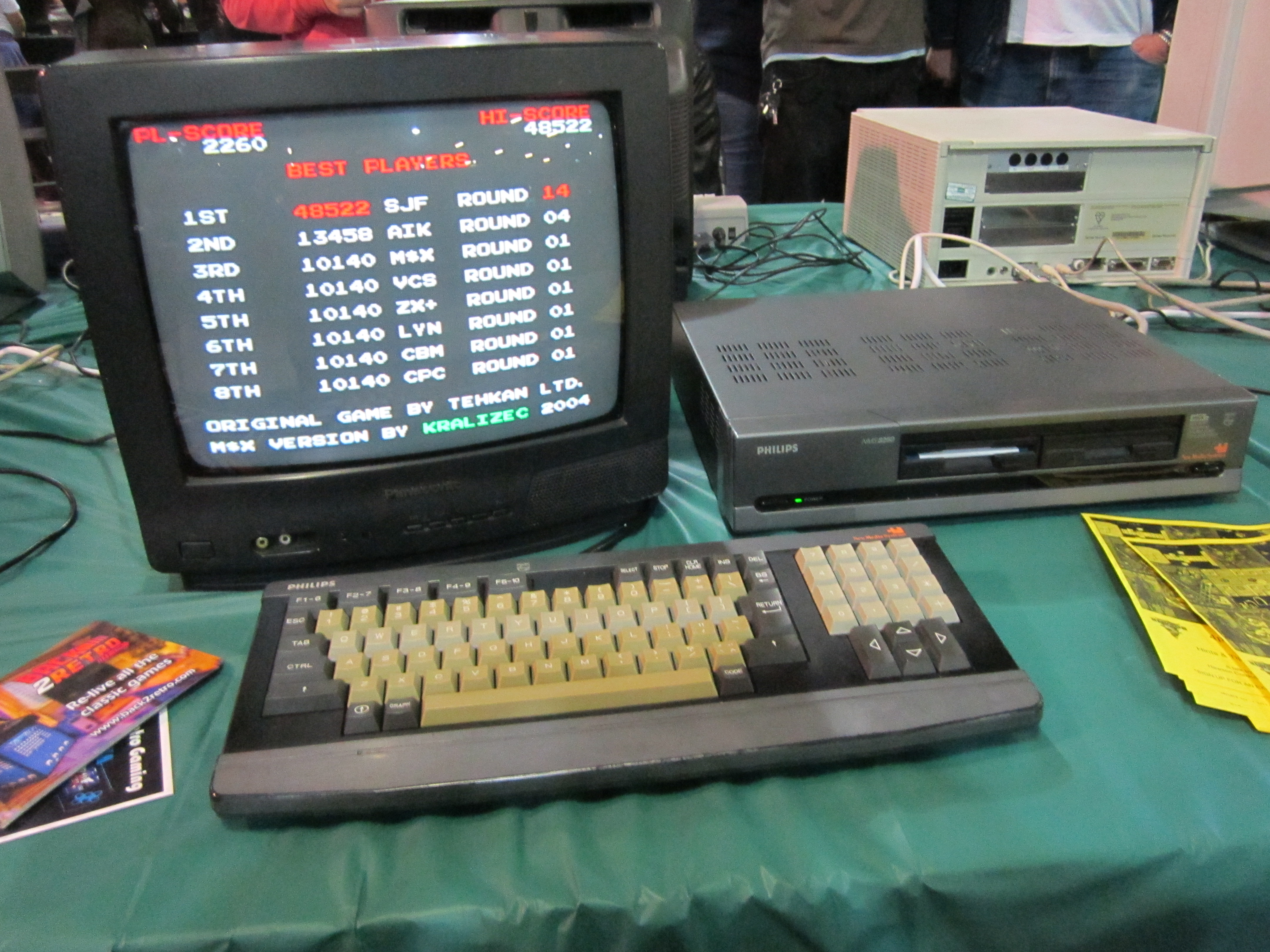 Photo taken at Play Expo 2013, held at EventCity Manchester, England.